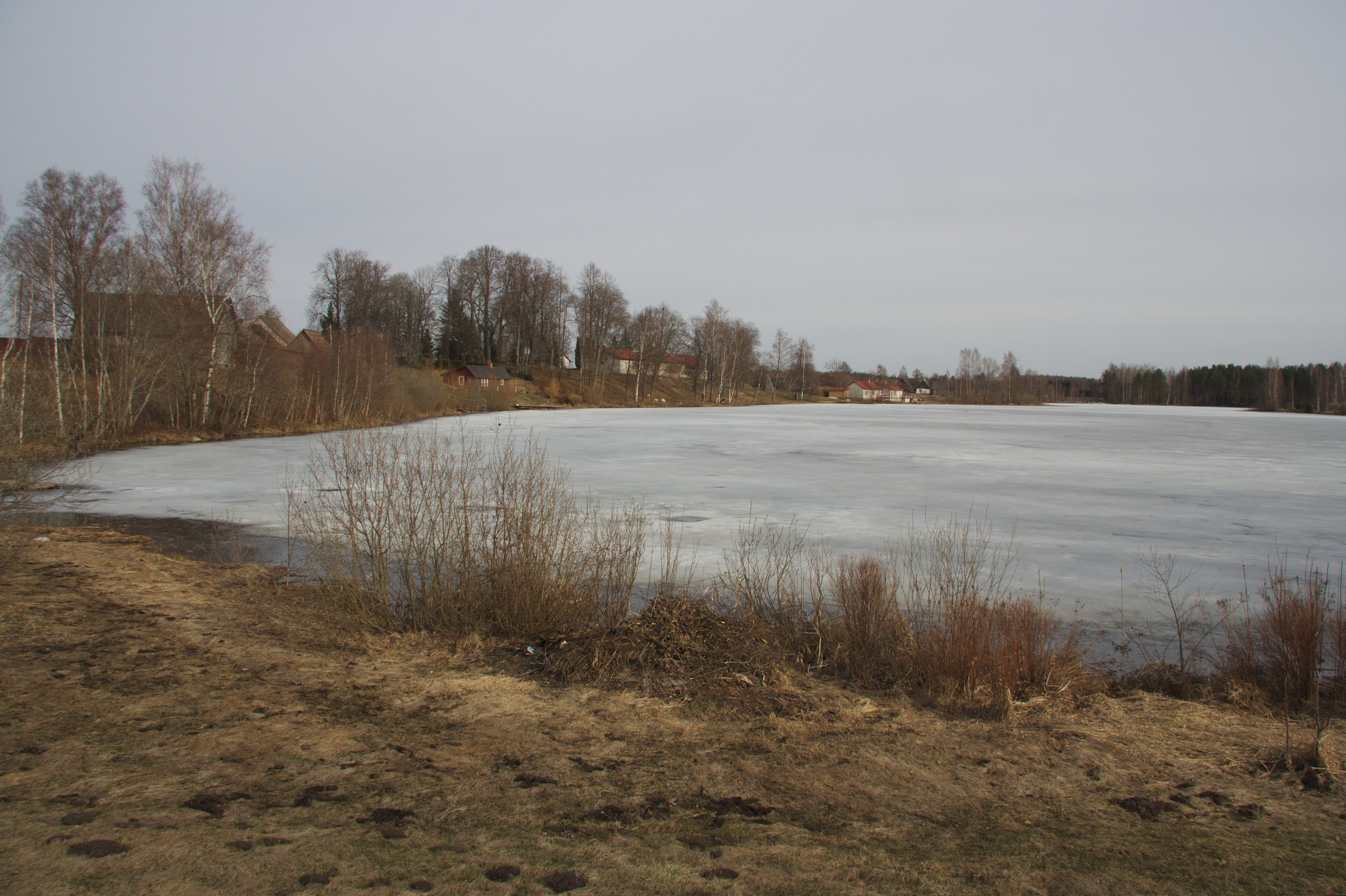 Vana-Koiola lake, Põlva county, Estonia. Spring 2011